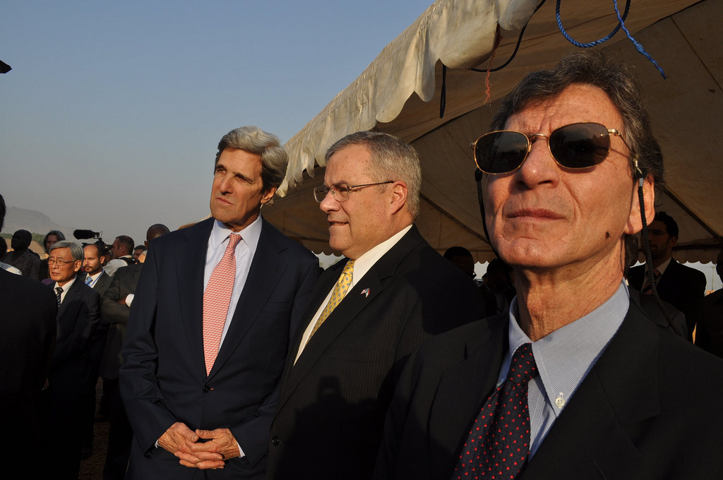 U.S. Senator John Kerry(left), U.S. Special Envoy to Sudan Scott Gration (center), and U.S. Consul General in Juba R. Barrie Walkley (right) witnessed the opening of referendum voting on January 9 and watched Government of Southern Sudan President Salva Kiir Mayardit cast the first vote. Credit: Angela Stephens.